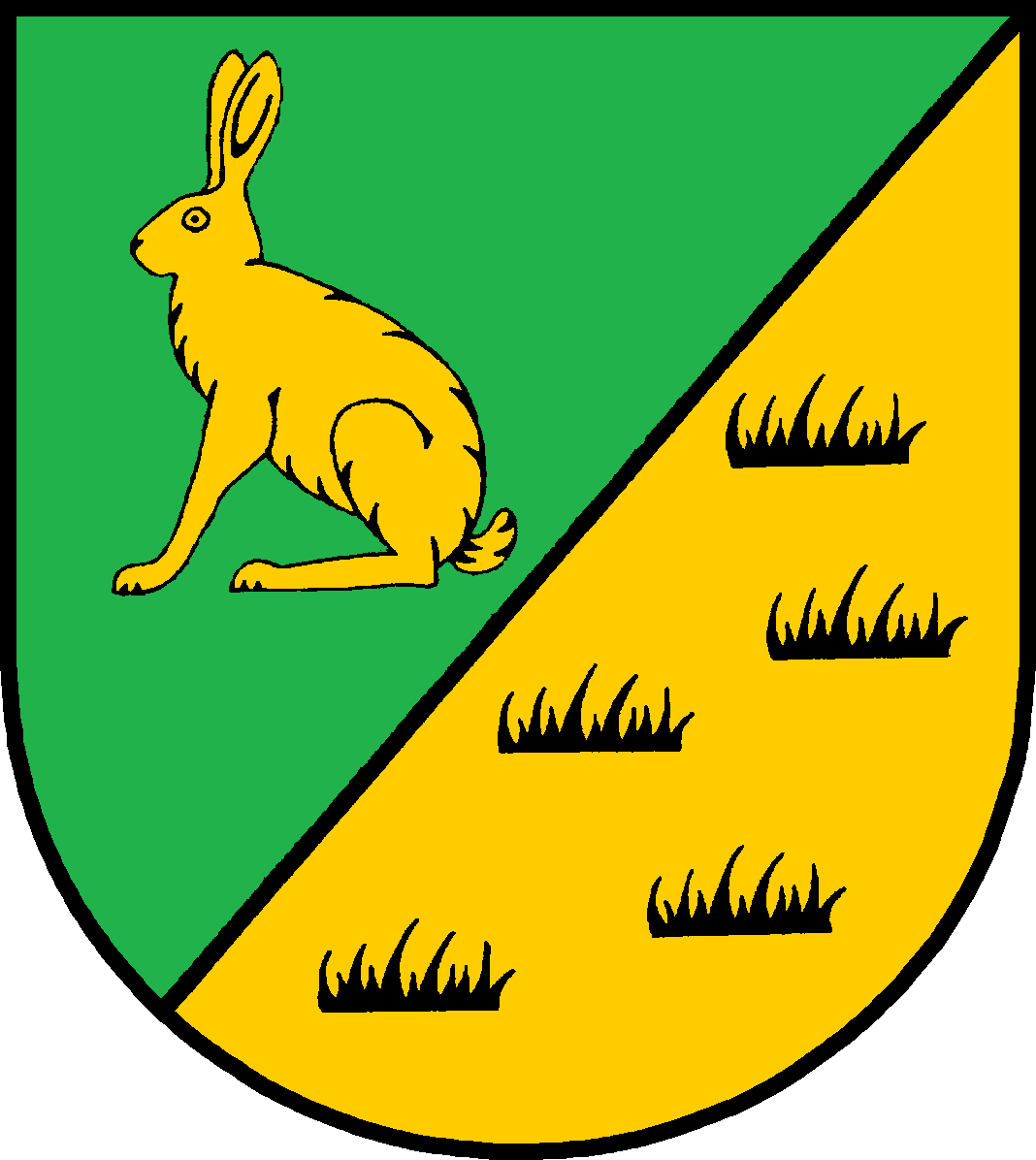 Coat of arms of the municipality Hasenmoor in Schleswig-Holstein, Germany.